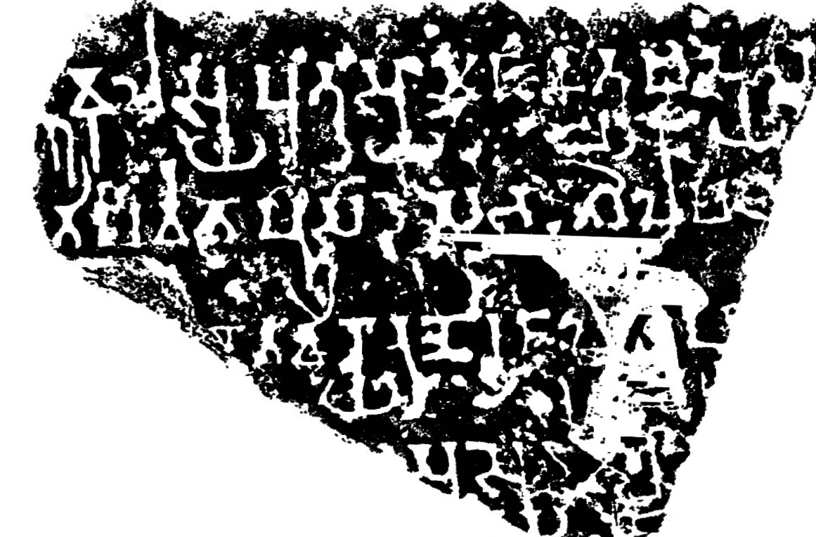 Prasado parvato or Temple Mountain inscription was found in Mathura, now housed in Kolkatta Indian Museum. It is a faithful copy of a 2D art, therefore PD-Art guidelines apply.